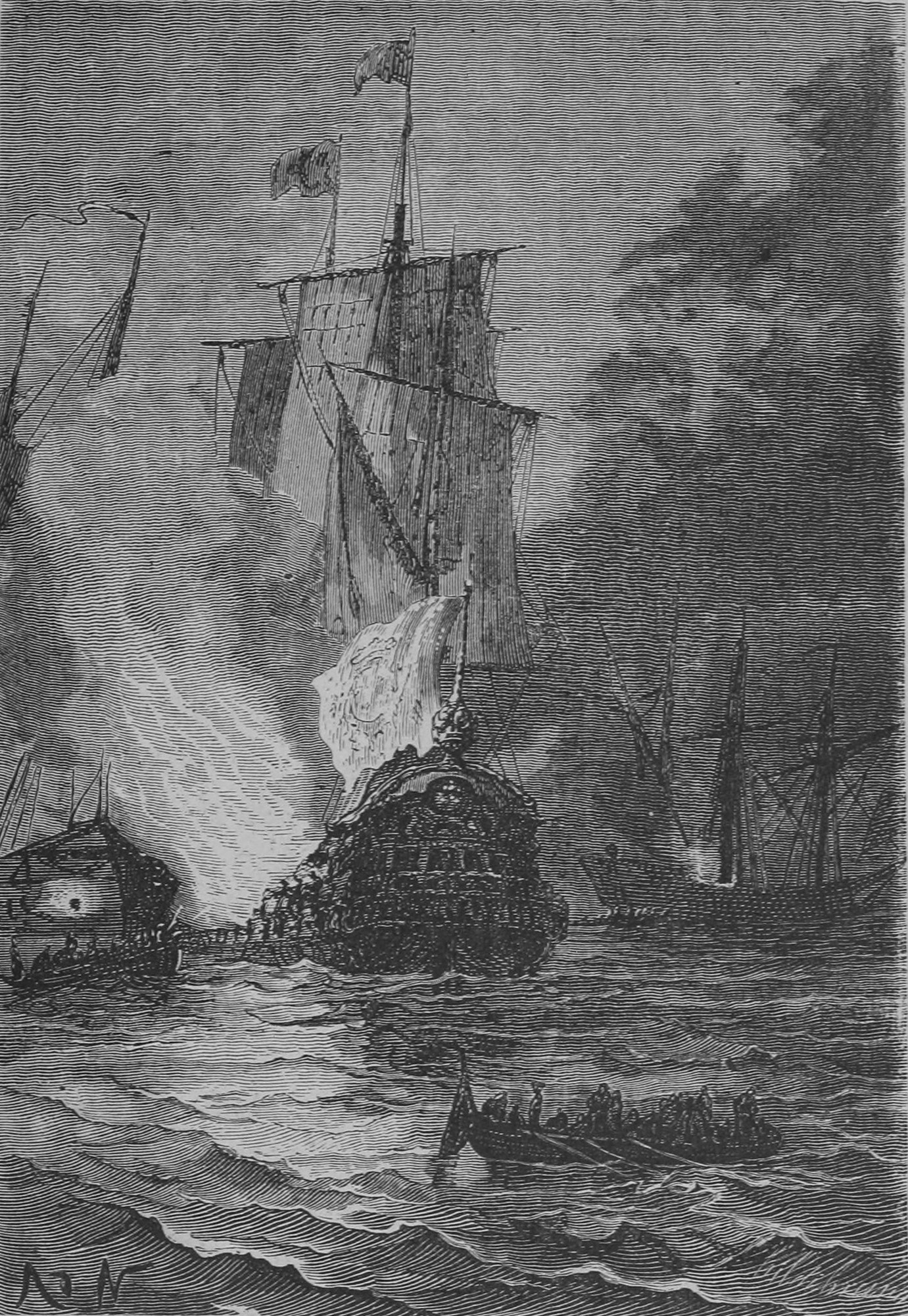 Image from scan vingtmillelieue00vern_orig_0293.jp2